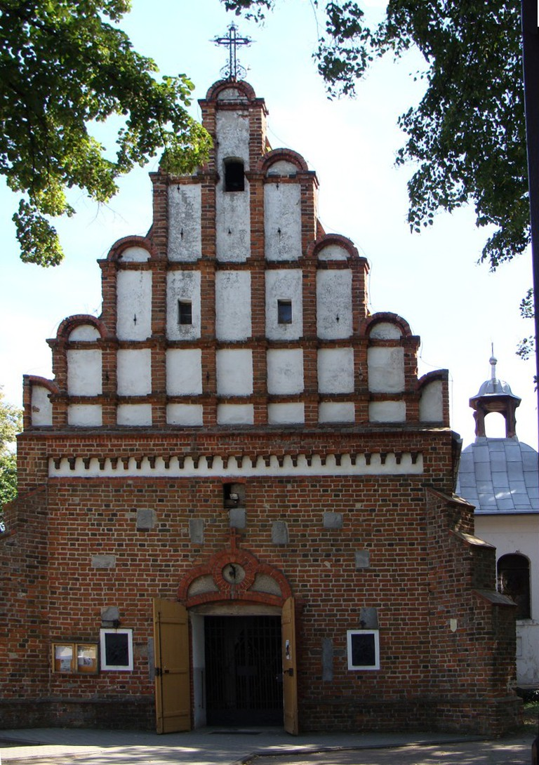 Saints Peter and Paul church in Rąbiń, Greater Poland Voivodeship.